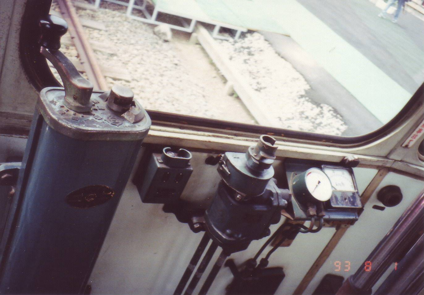 Cab of Osaka City Tram #3050. taken in 1993.